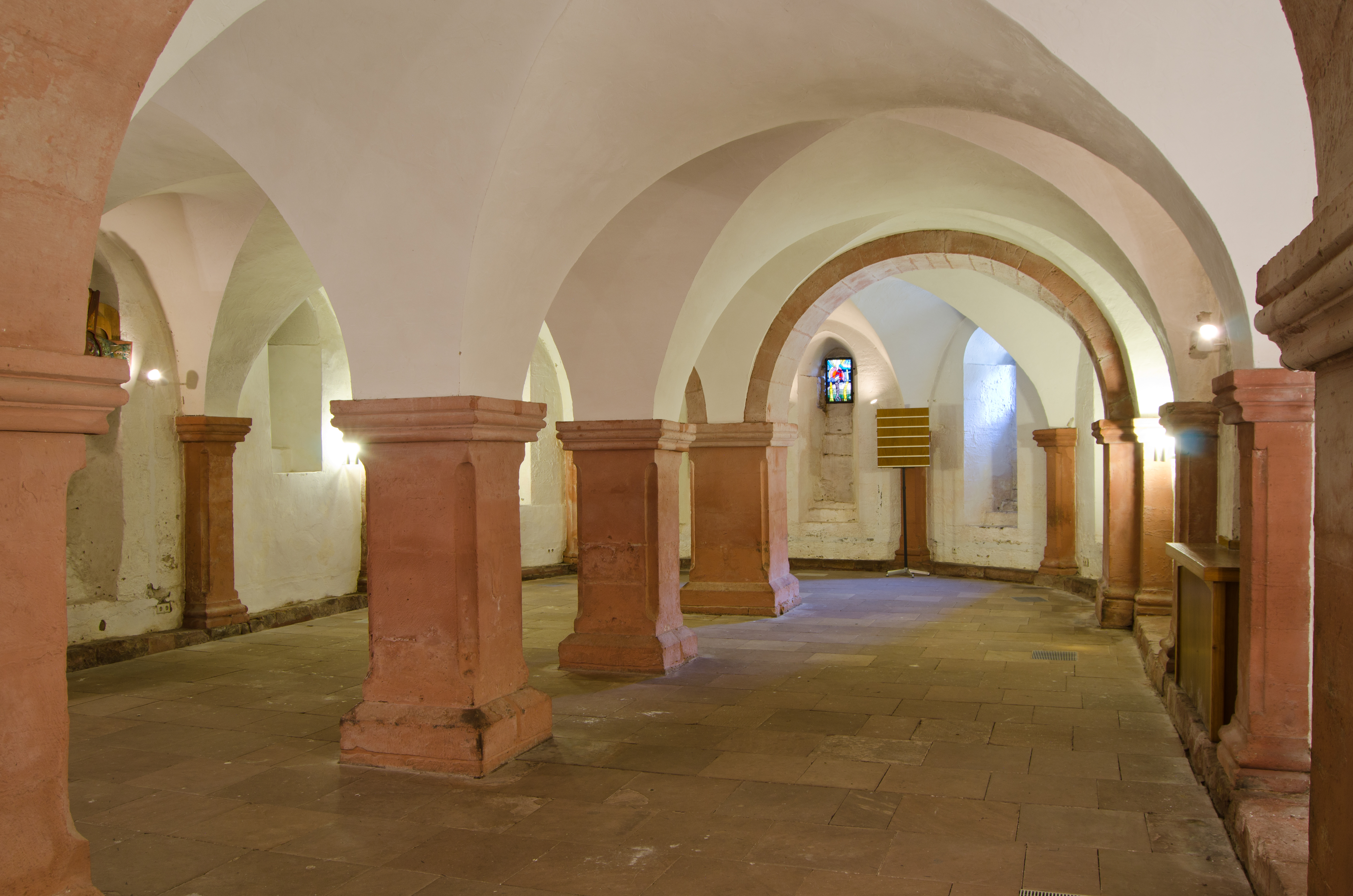 Einbeck (Lower Saxony, Germany) – Lutheran Saint Alexander Church – crypt This is a photograph of an architectural monument.It is on the list of cultural monuments of Einbeck This photograph was taken with a Nikon D7000